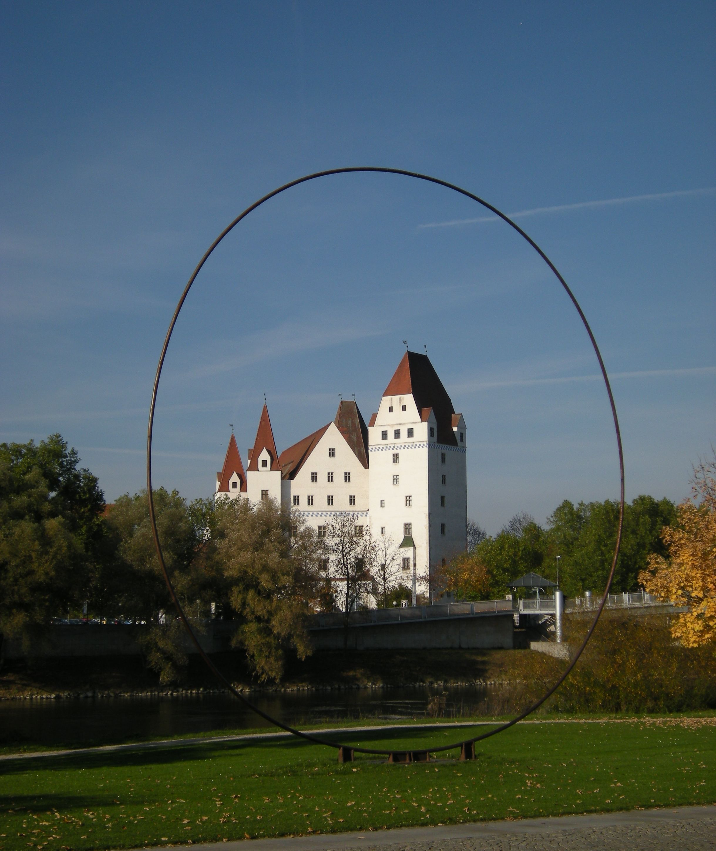 Ingolstadt - New Castle